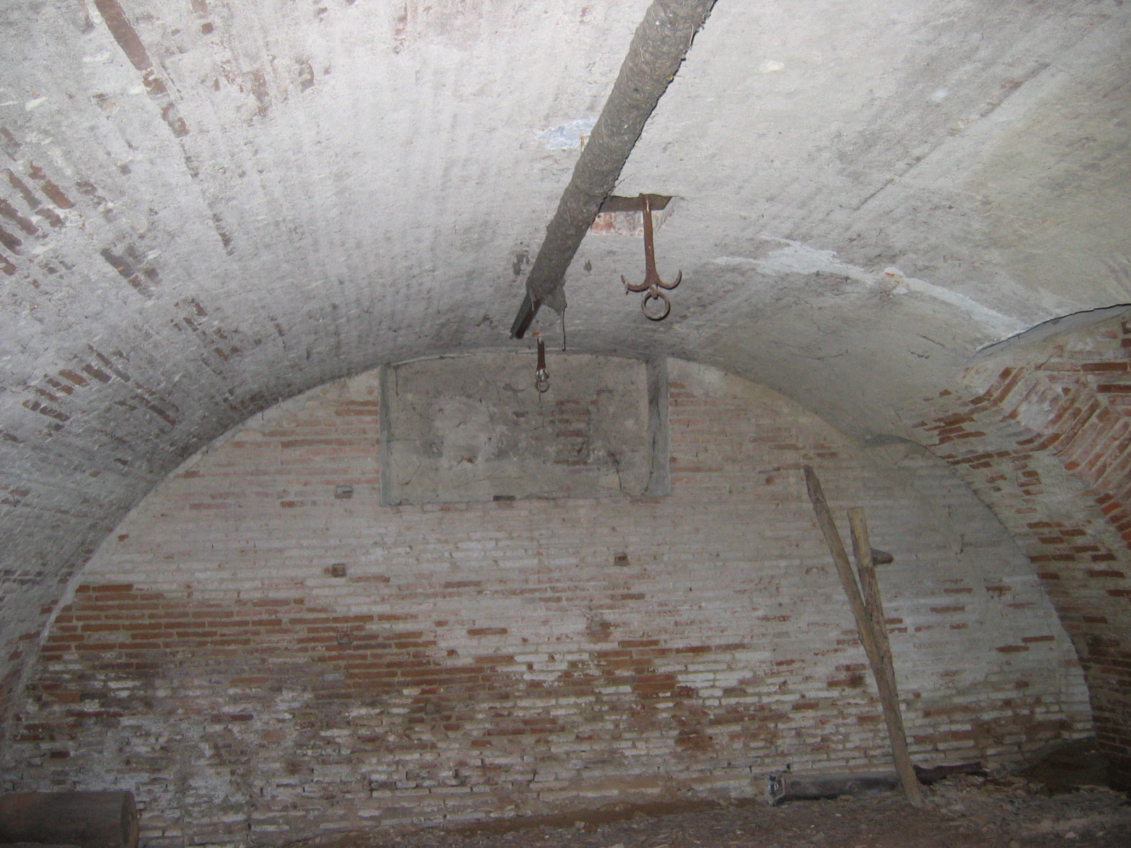 Cave of Bonrepos castle, Bonrepos-Riquet village, Haute-Garonne, France